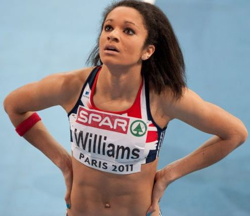 Jodie Williams at the 2011 European Athletics Indoor Championships in Paris